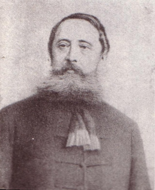 Vice-Roy of Croatia Koloman Bedeković